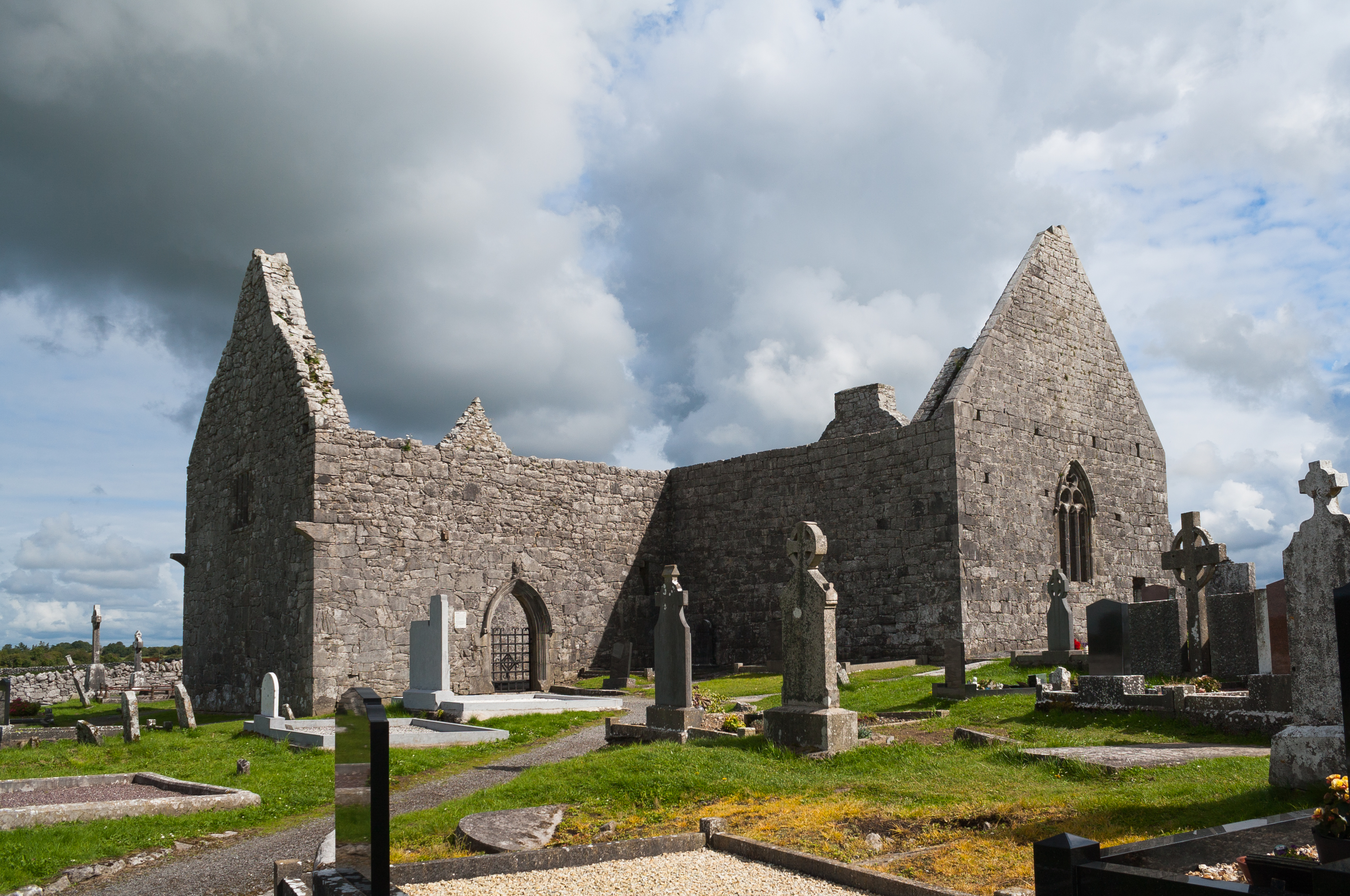 South-west view of the cathedral from the position of the round tower.